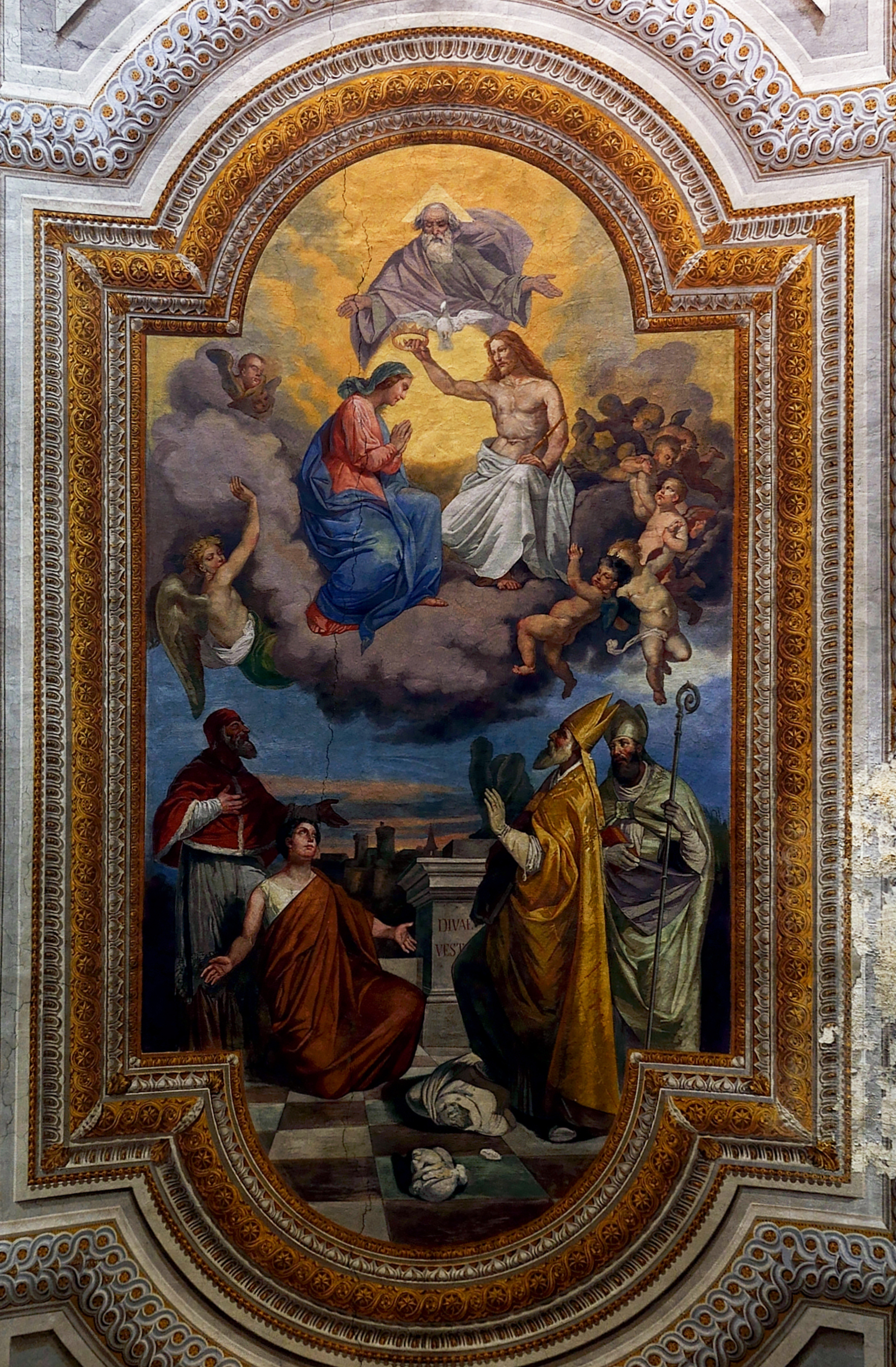 Fresco of the cathedral of Nepi